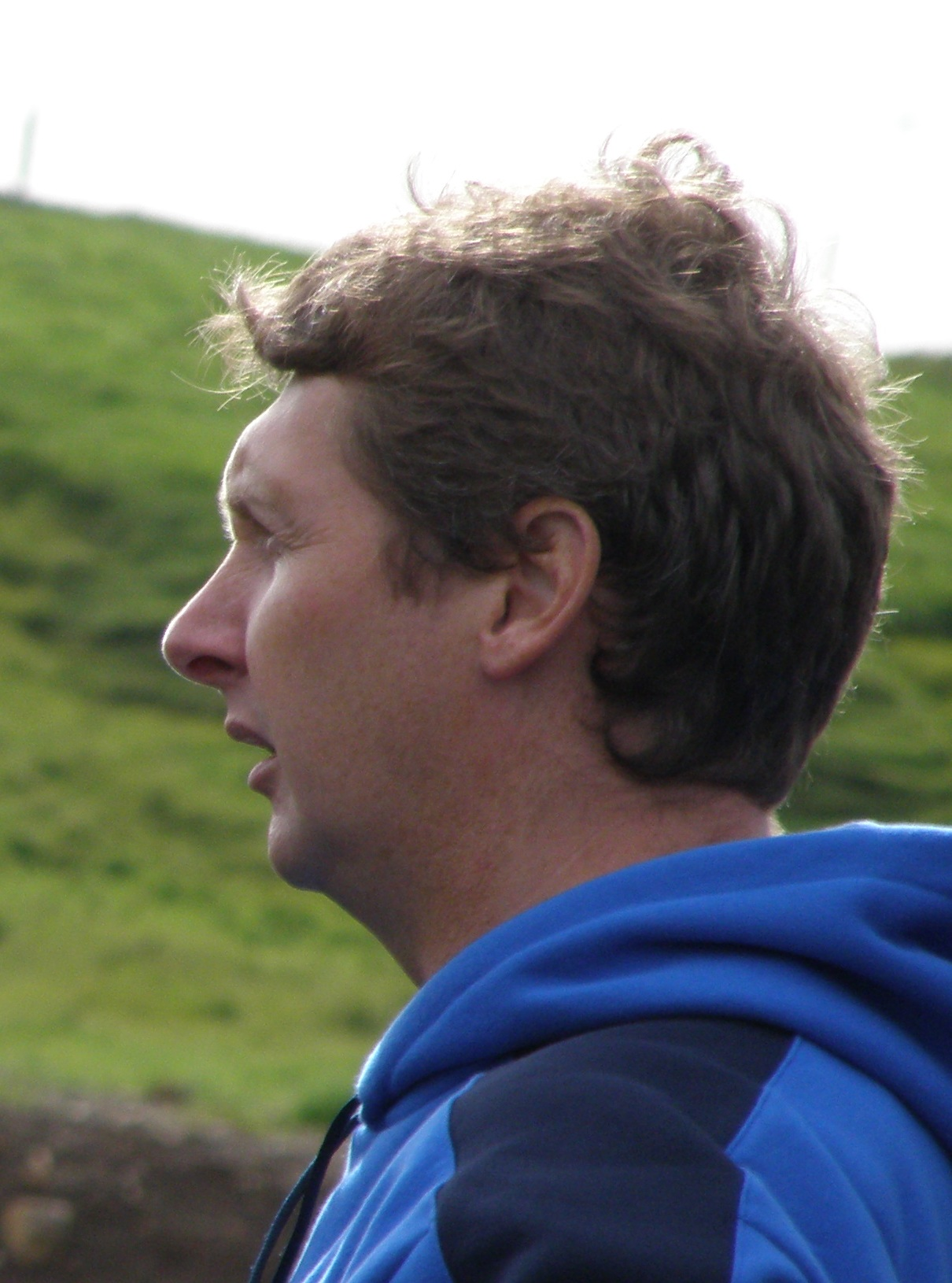 Jón Pauli Olsen is a Faroese football manager. He is the coach of FC Suðuroy. This photo was taken at the match between FC Suðuroy and B36 Tórshavn on Eiðinum football field in Vágur. Jón Pauli Olsen has earlier played football for VB Vágur and VB/Sumba, which changed name to FC Suðuroy in January 2010. Føroyskt: Jón Pauli Olsen er føroyskur fótbóltsvenjari. Hann er venjari hjá FC Suðuroy (fyrr VB/Sumba). Myndin er tikin til dystin millum FC Suðuroy og B36, sum var leiktur vesturi á Eiðinum í Vági 22. august 2010. Úrslitið av dystinum gjørdist 2-1 til FC Suðuroy, sum harvið slapp burtur frá støðuni sum aftasta lið í Vodafonedeildini. Eftir dystin var liðið nummar 9 við 14 stigum.